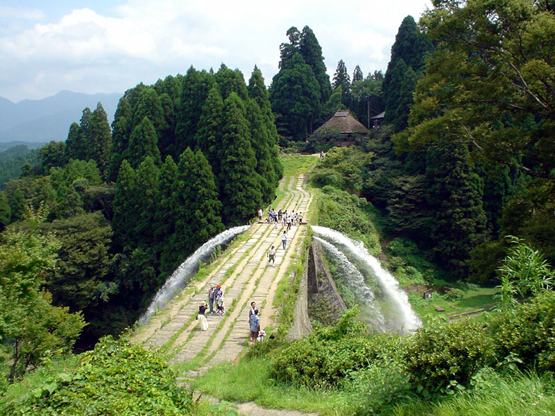 The Tsūjun Bridge is an aqueduct in Yamato, Kumamoto Prefecure, Japan.